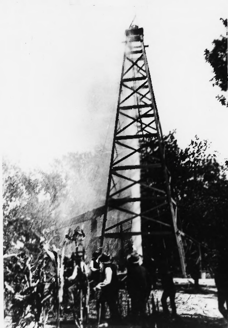 The Norman Number One Oil Well blows in Neodesha, Kansas.